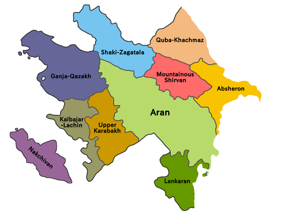 Economic regions of Azerbaijan